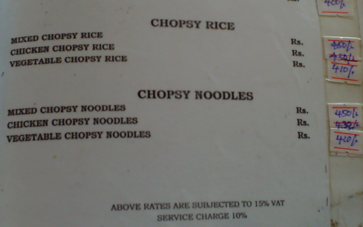 Misspelling of the word "Chop Suey", found in a menu at a restaurant in Kandy, Sri Lanka.